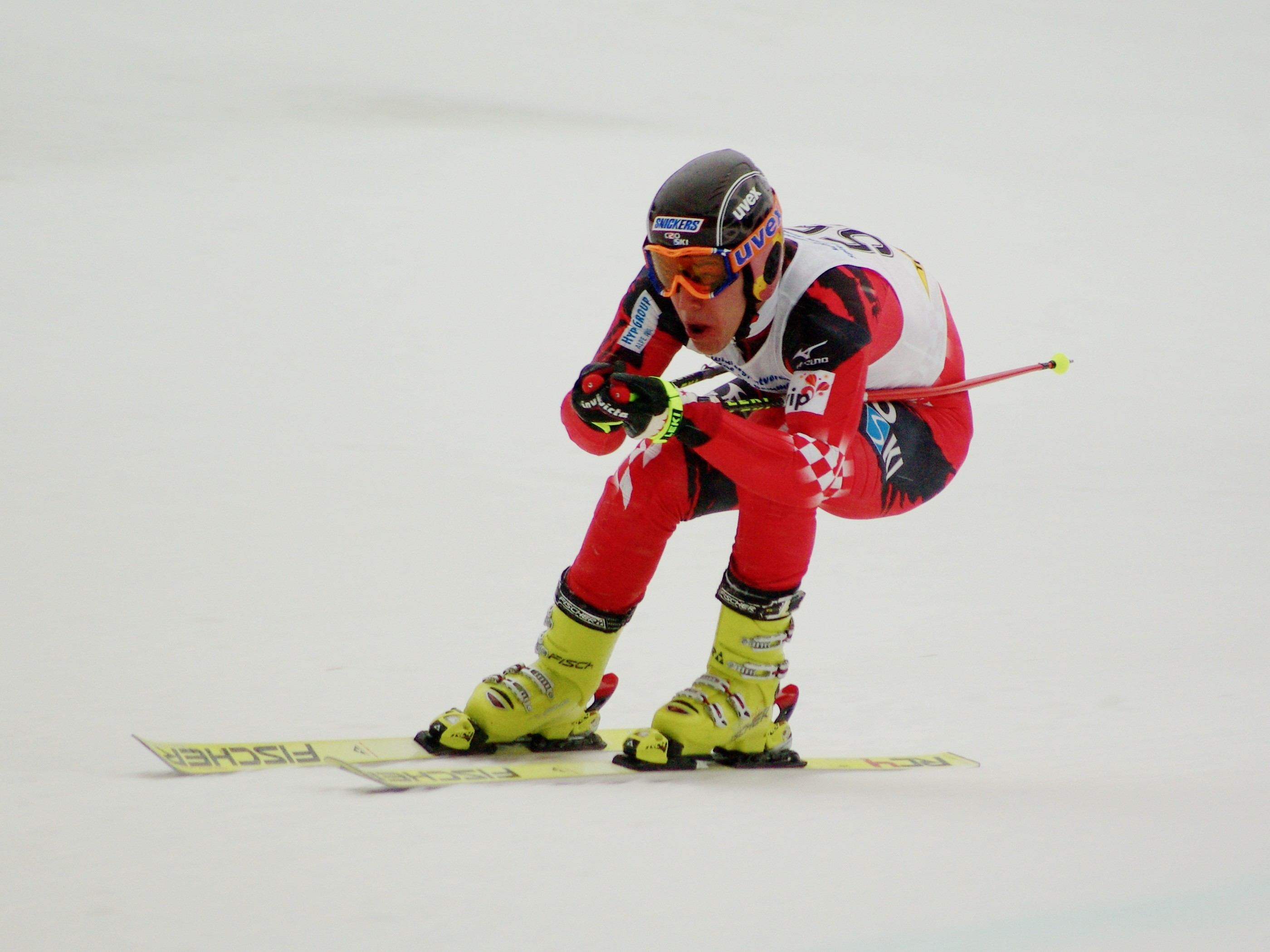 Croatian alpine skier Danko Marinelli during the FIS Super-G in Spital am Semmering, Austria on 11 March 2008.